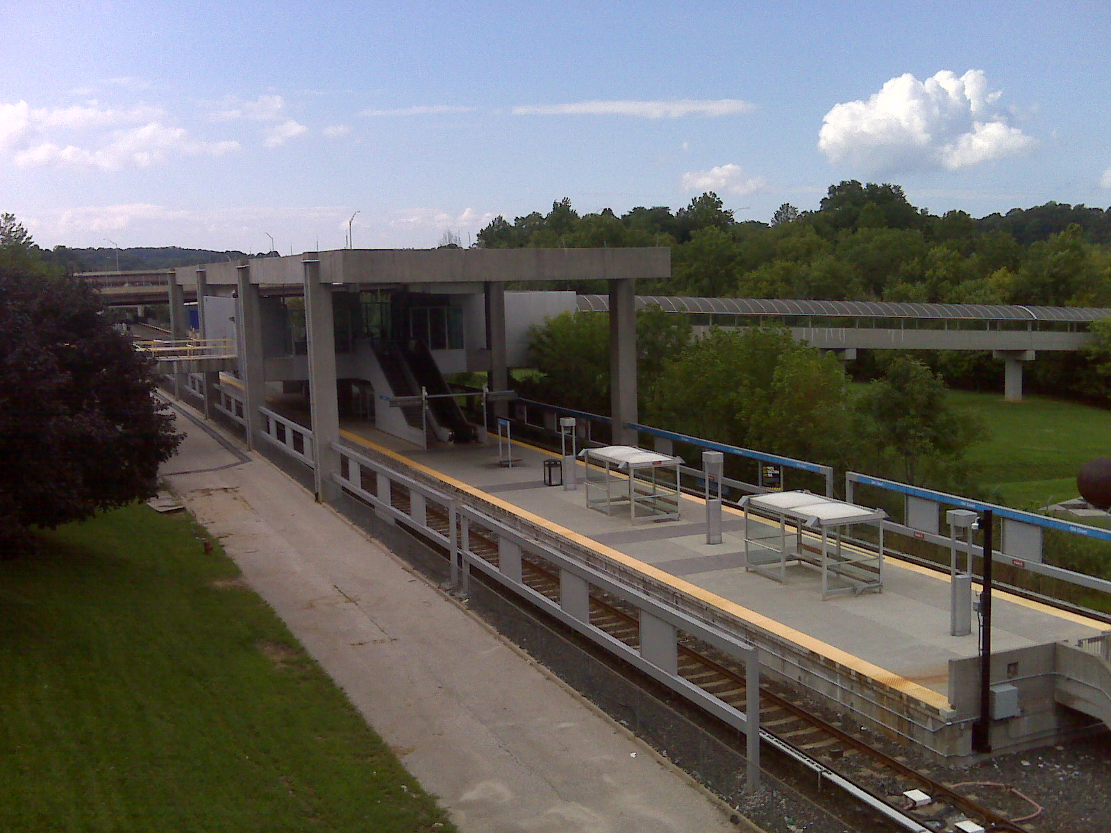 A picture of the Old Court Metro Subway station from Old Court Road's overpass.